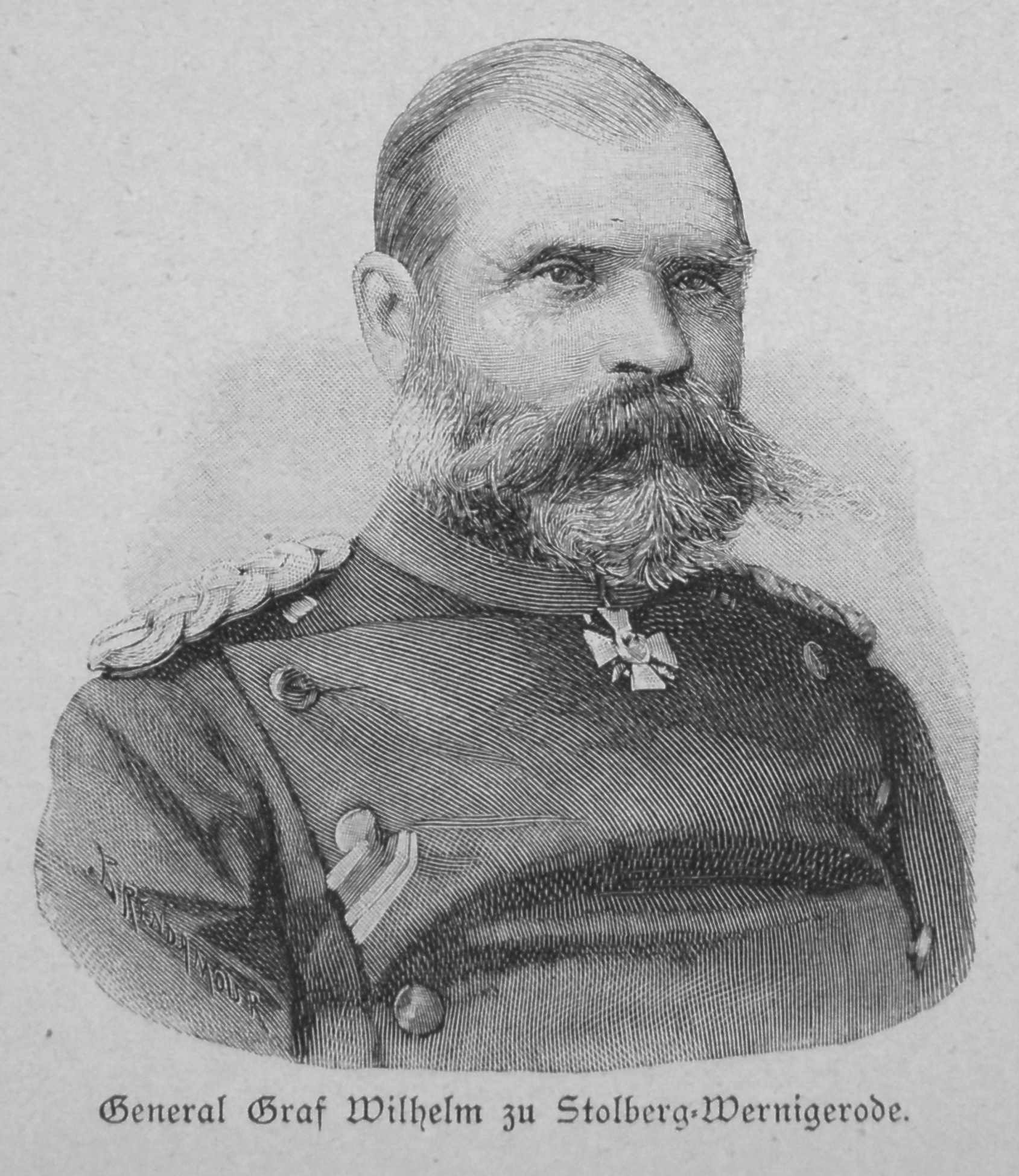 general earl Wilhelm zu Stolberg-Wernigerode